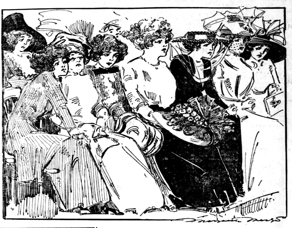 Courtroom sketch by Marguerite Martyn of women spectators at trial of Dora Doxey, printed in St. Louis Post-Dispatch on June 2, 1910